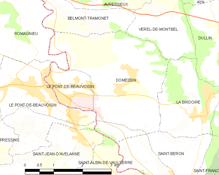 Map of French municipality